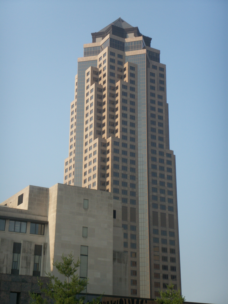 View of 801 Grand in Des Moines, Iowa, USA. The north-east side of the building is shown, with 711 High Street (the headquarters of Principal Financial Group, who also own 801 Grand) in the foreground.